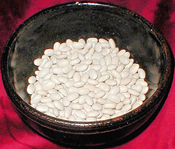 White Cannellini beans